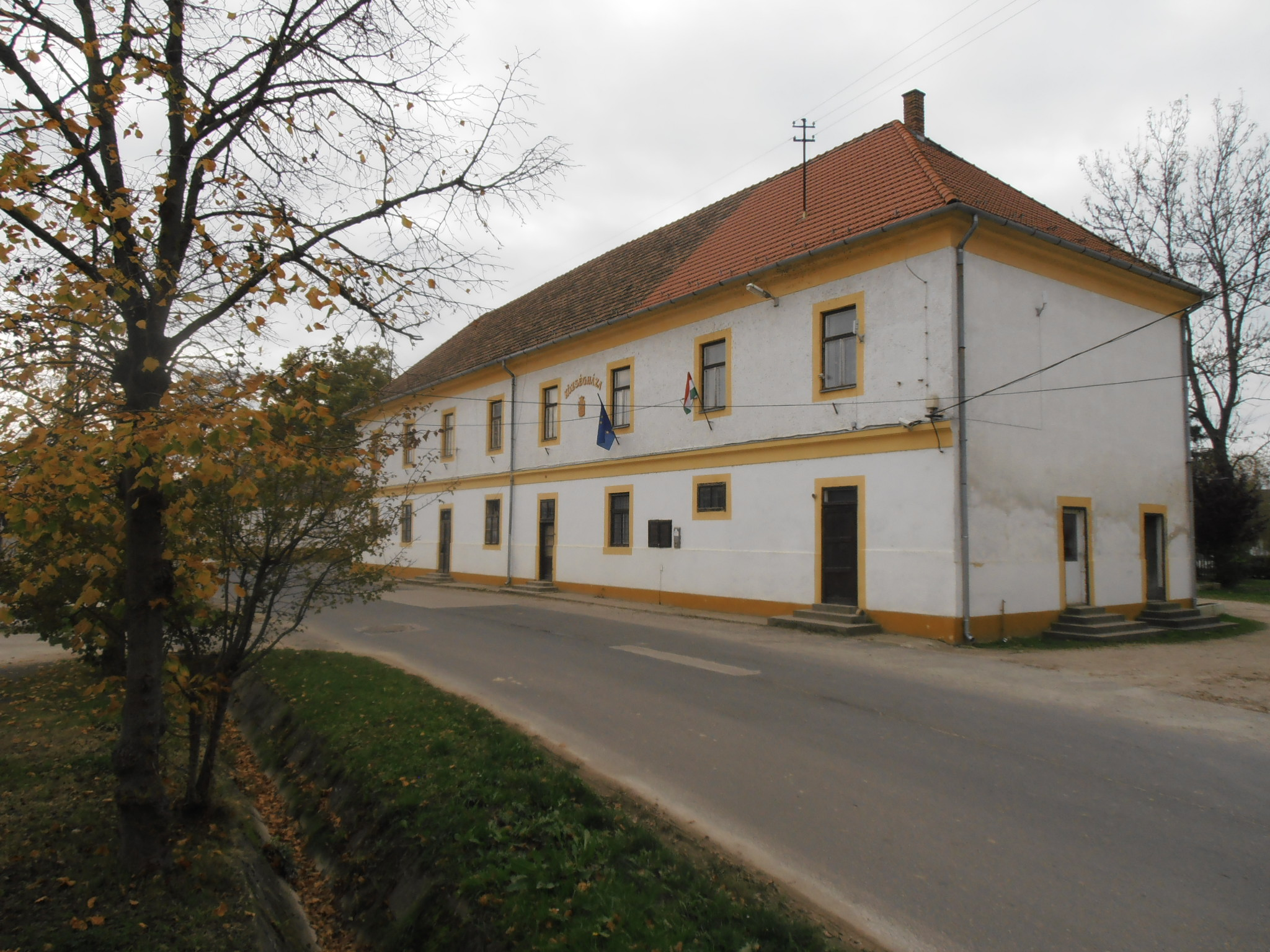 Building of local authority in Nemesvid, Hungary. Built in 1848